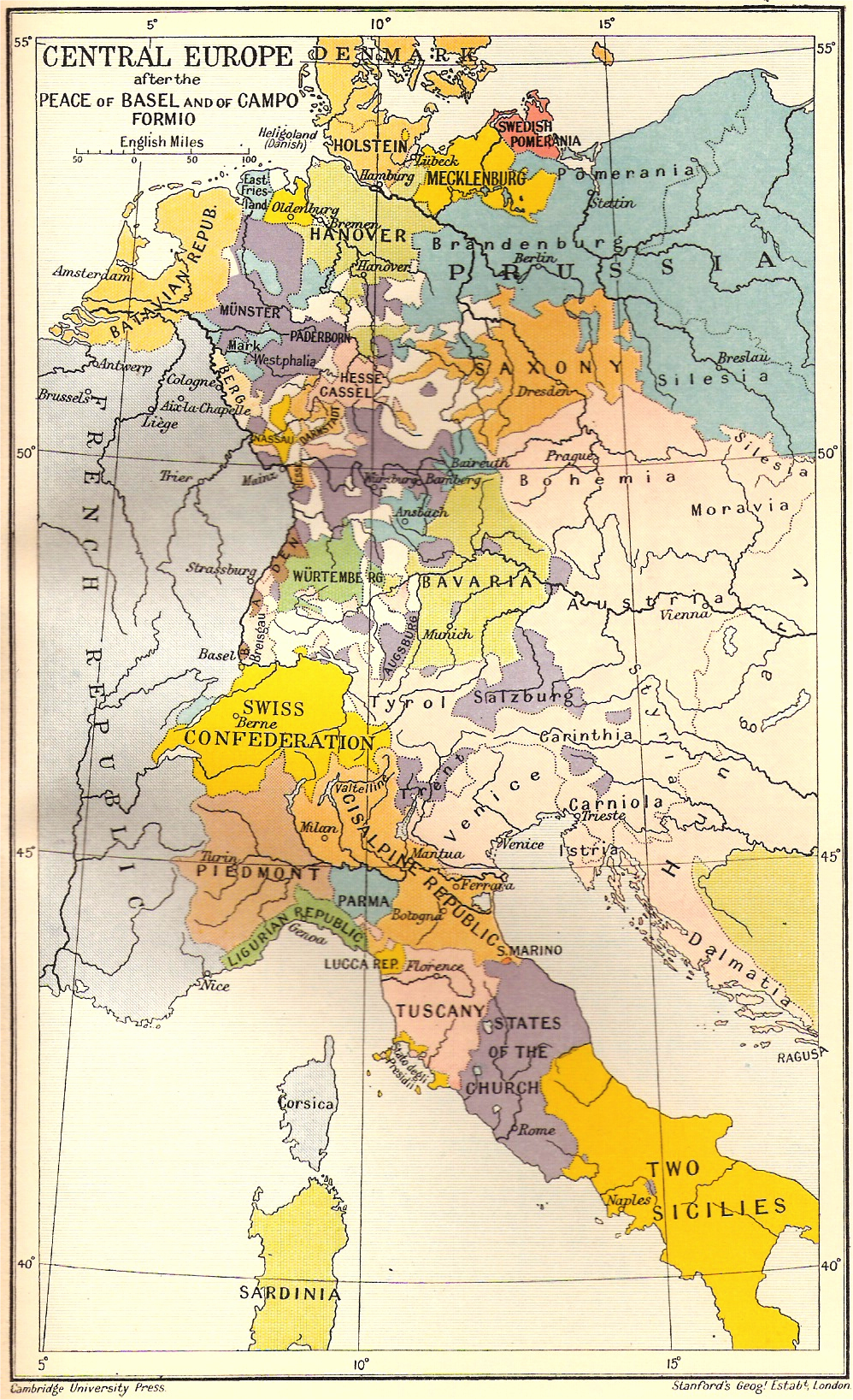 "Central Europe after the Peace of Basel and of Campo Formio" (1797).